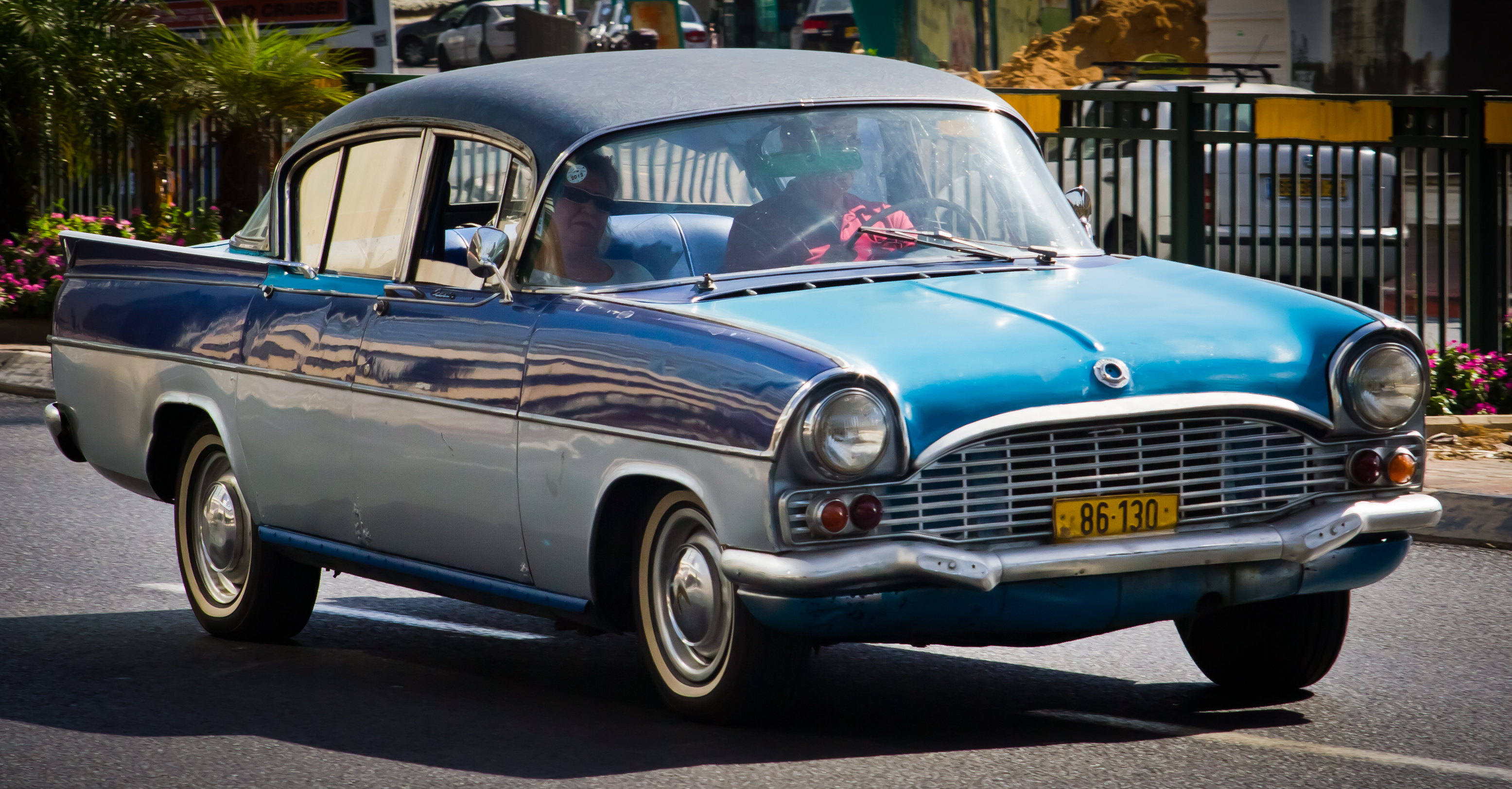 Blue 1960s Vauxhall Cresta in Tel Aviv, Israel October 2011.